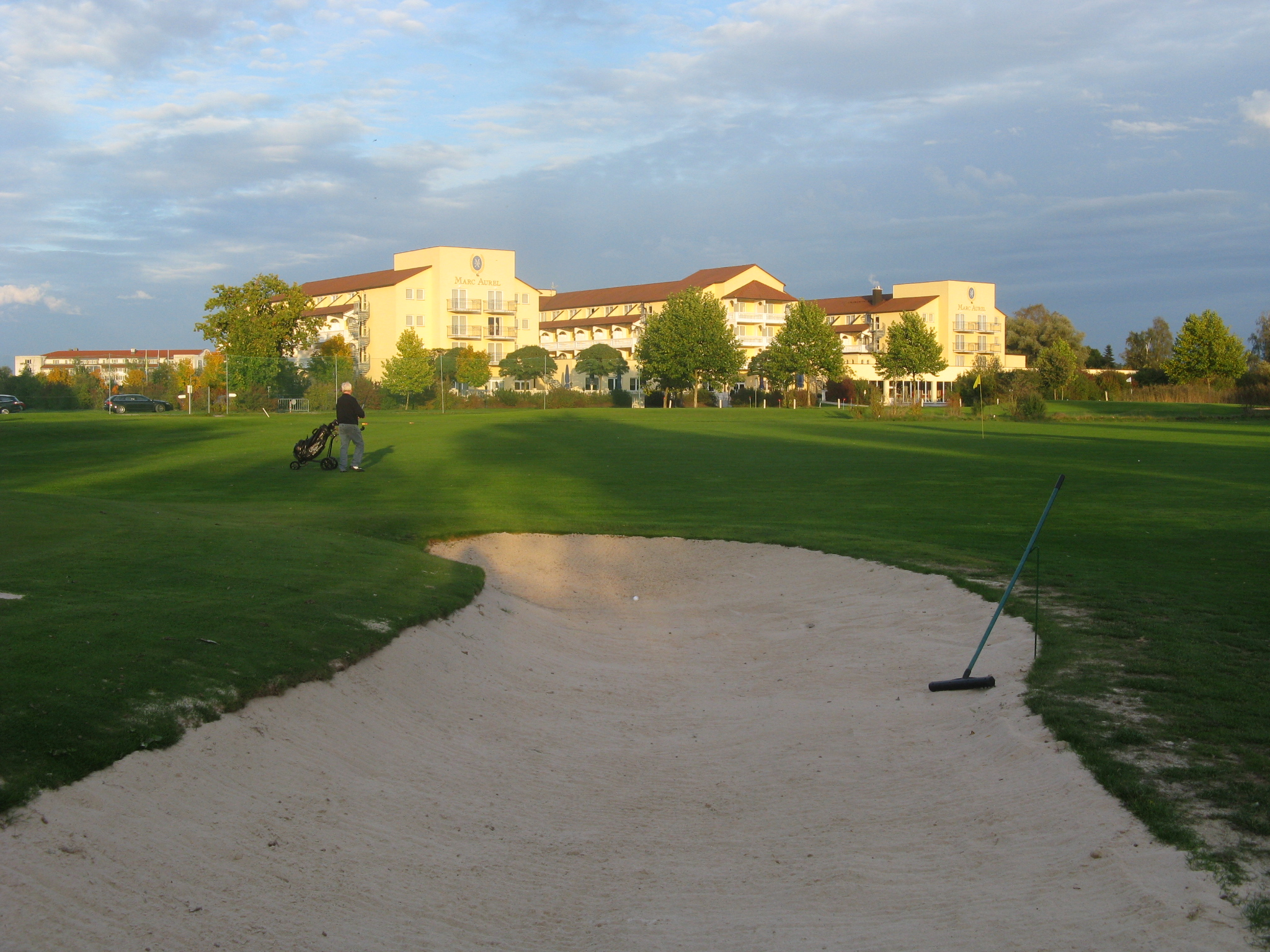 Golf course and spa Bad Gögging, Germany